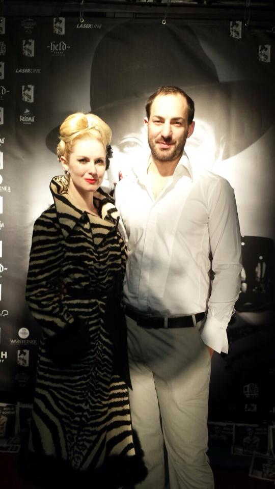 Marlene von Steenvag in Berlin (2014)